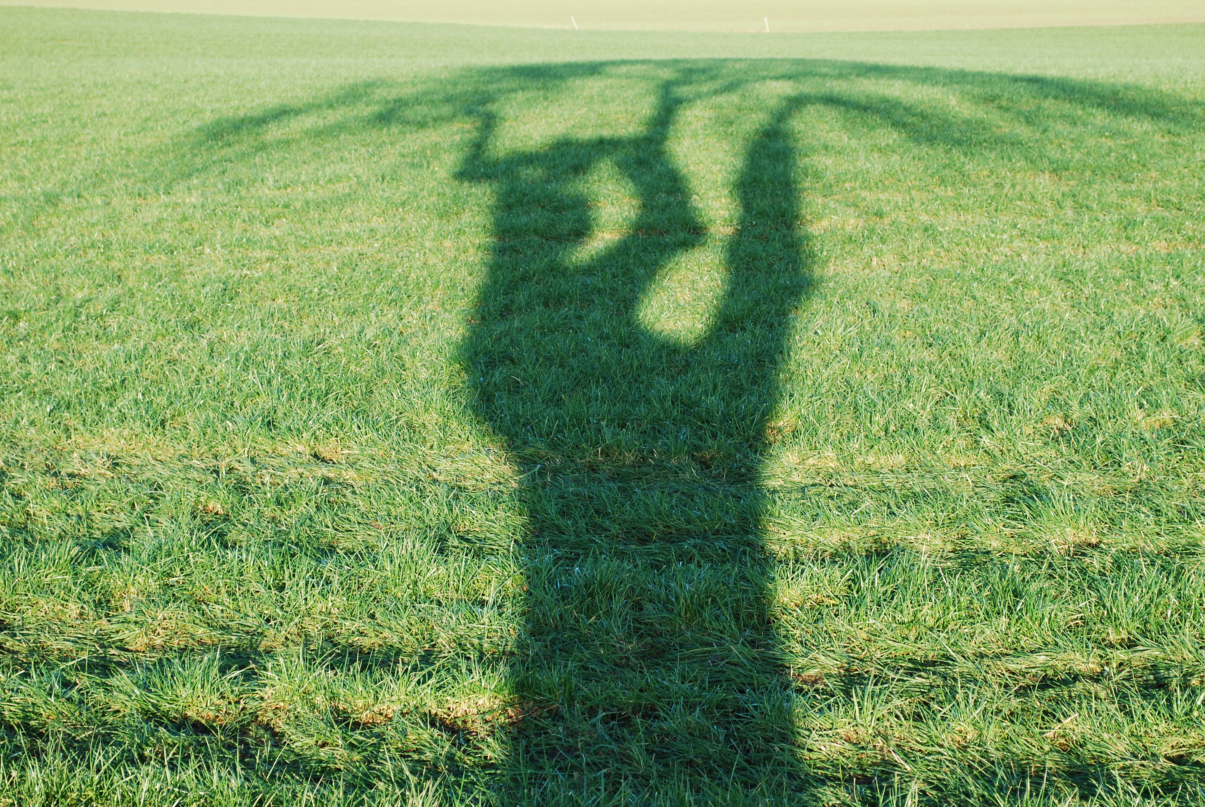 Tree-shadow